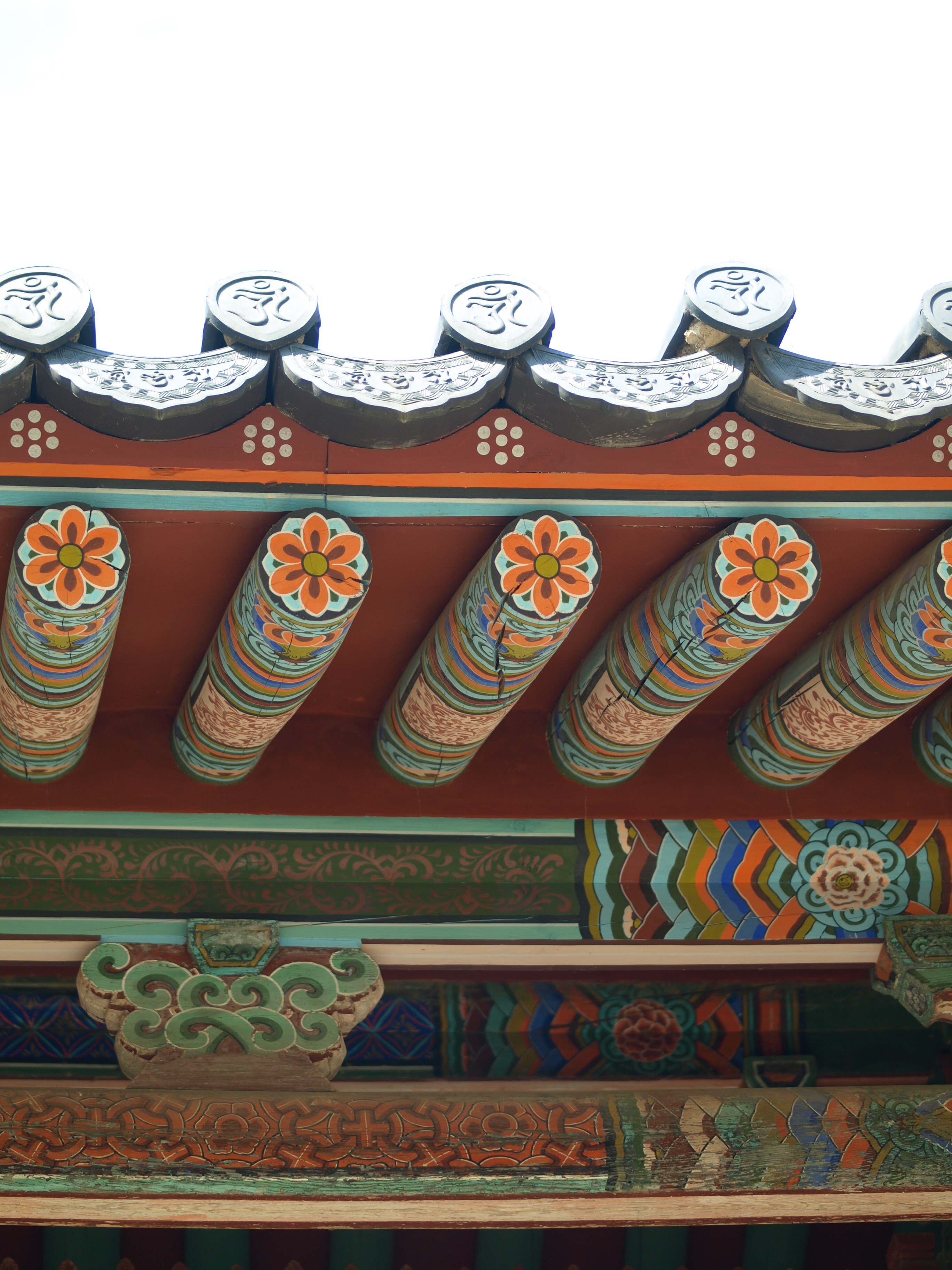 Cheongpeongsa in Chuncheon City, Gangwon Province, South Korea